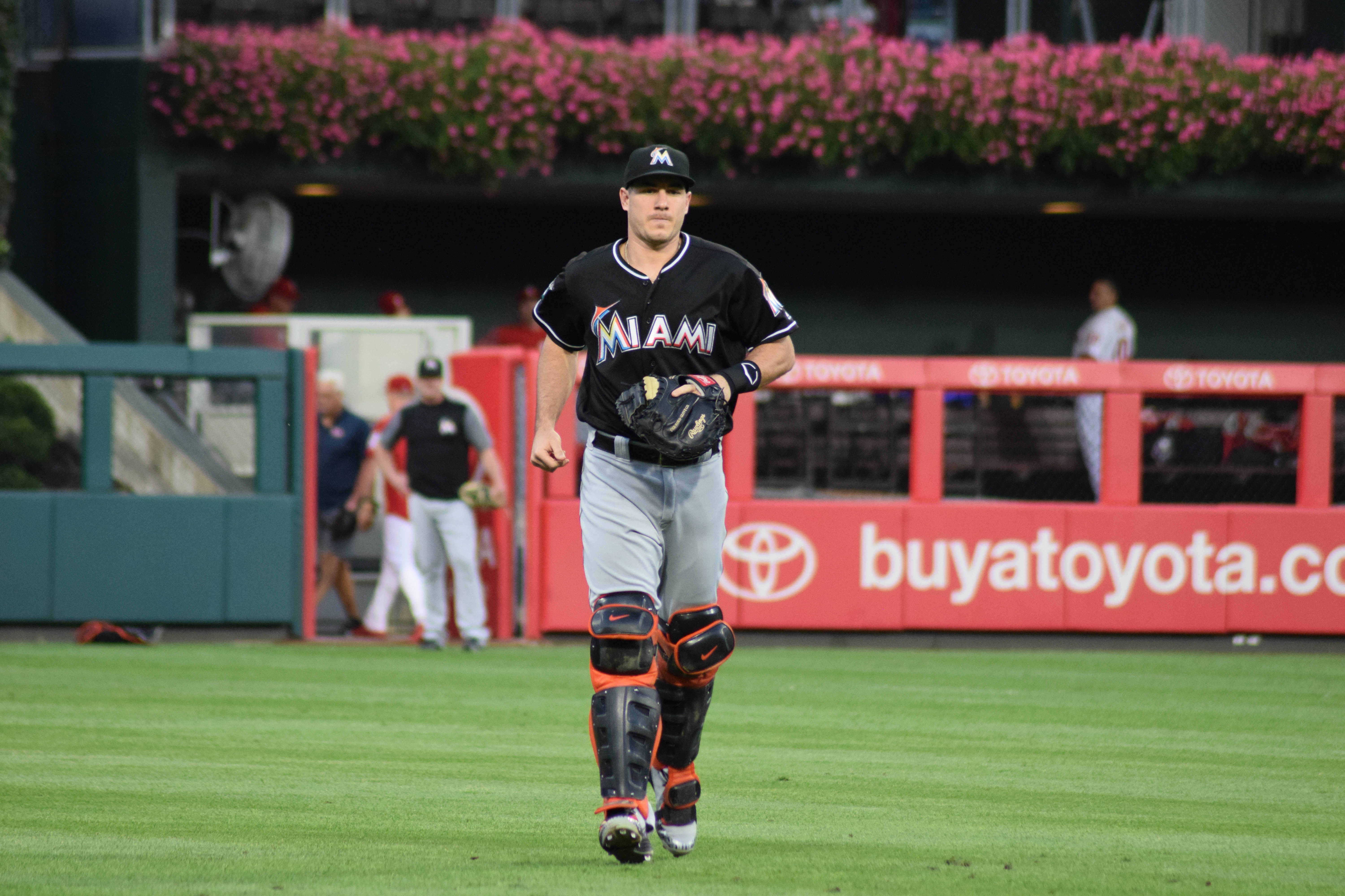 Miami Marlins catcher J.T. Realmuto